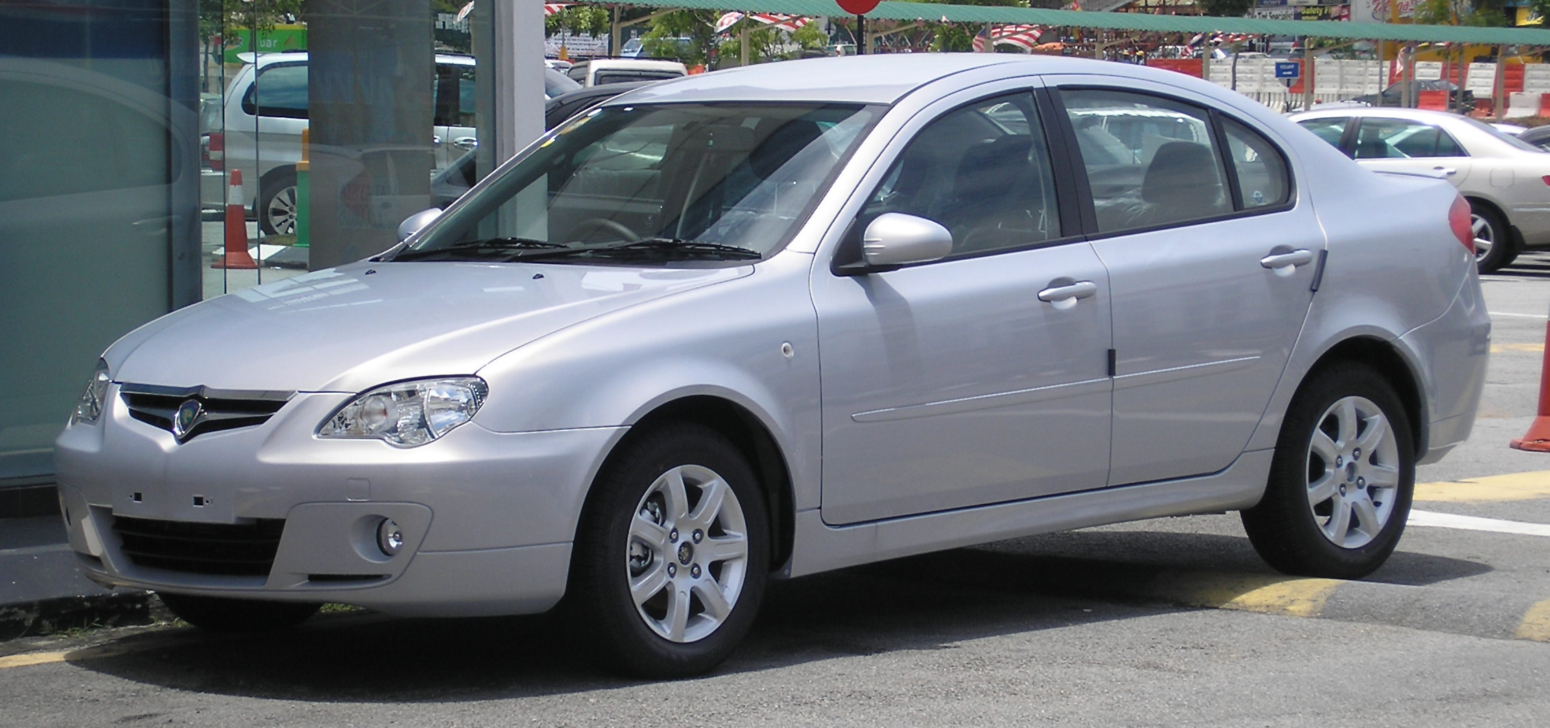 Front-side shot of an unregistered Proton Persona in Serdang, Selangor, Malaysia.